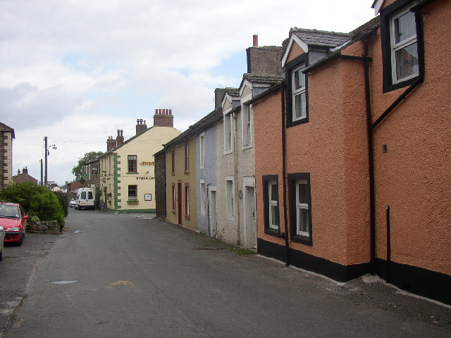 The main street and road junction, Bowness on Solway. The junction is with the Kirkbride road, and is marked by the King's Arms Hotel, on which is a plaque giving information on the Roman wall and fort.